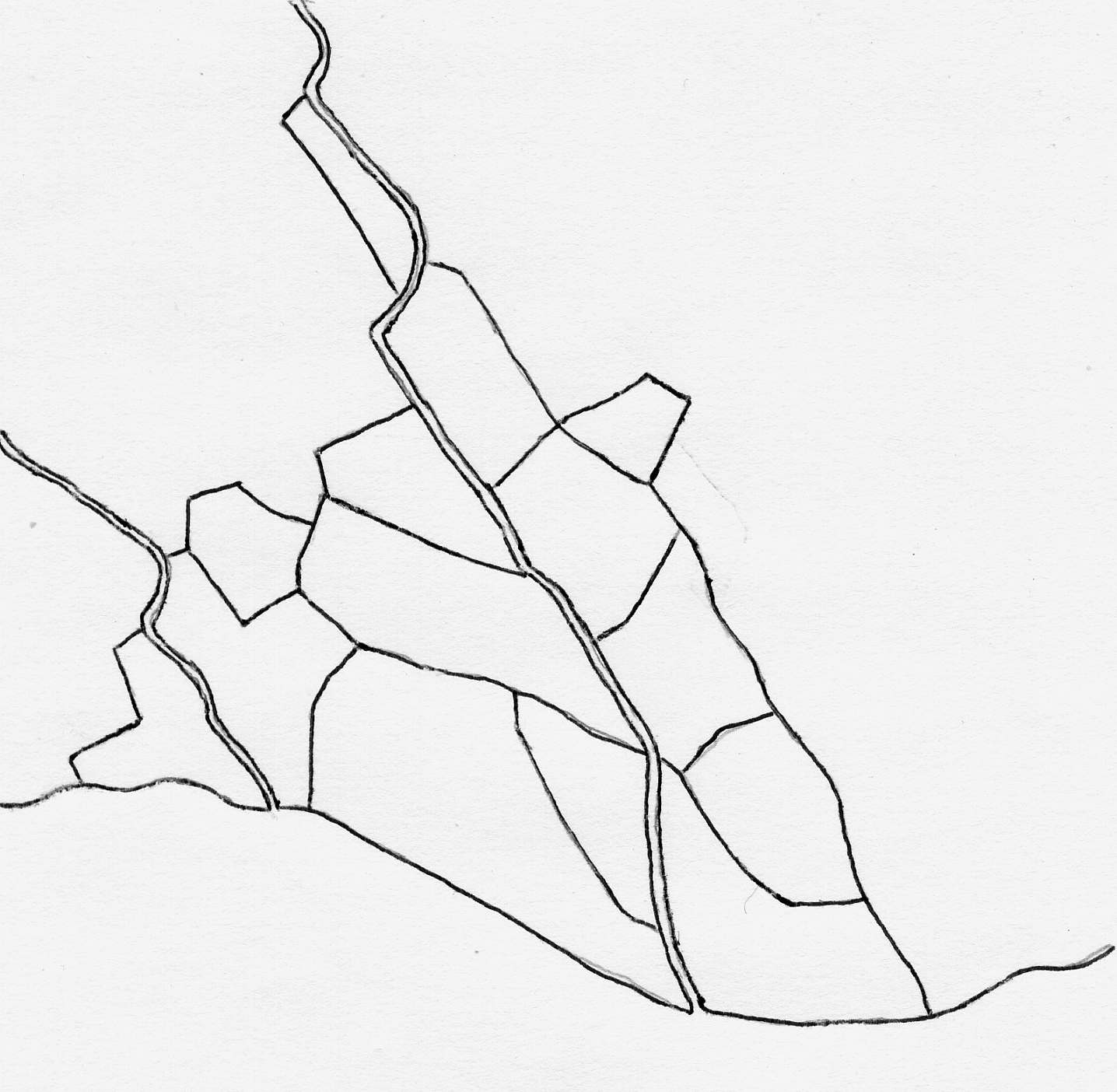 Microdistricts in Tsentralny City district of Sochi